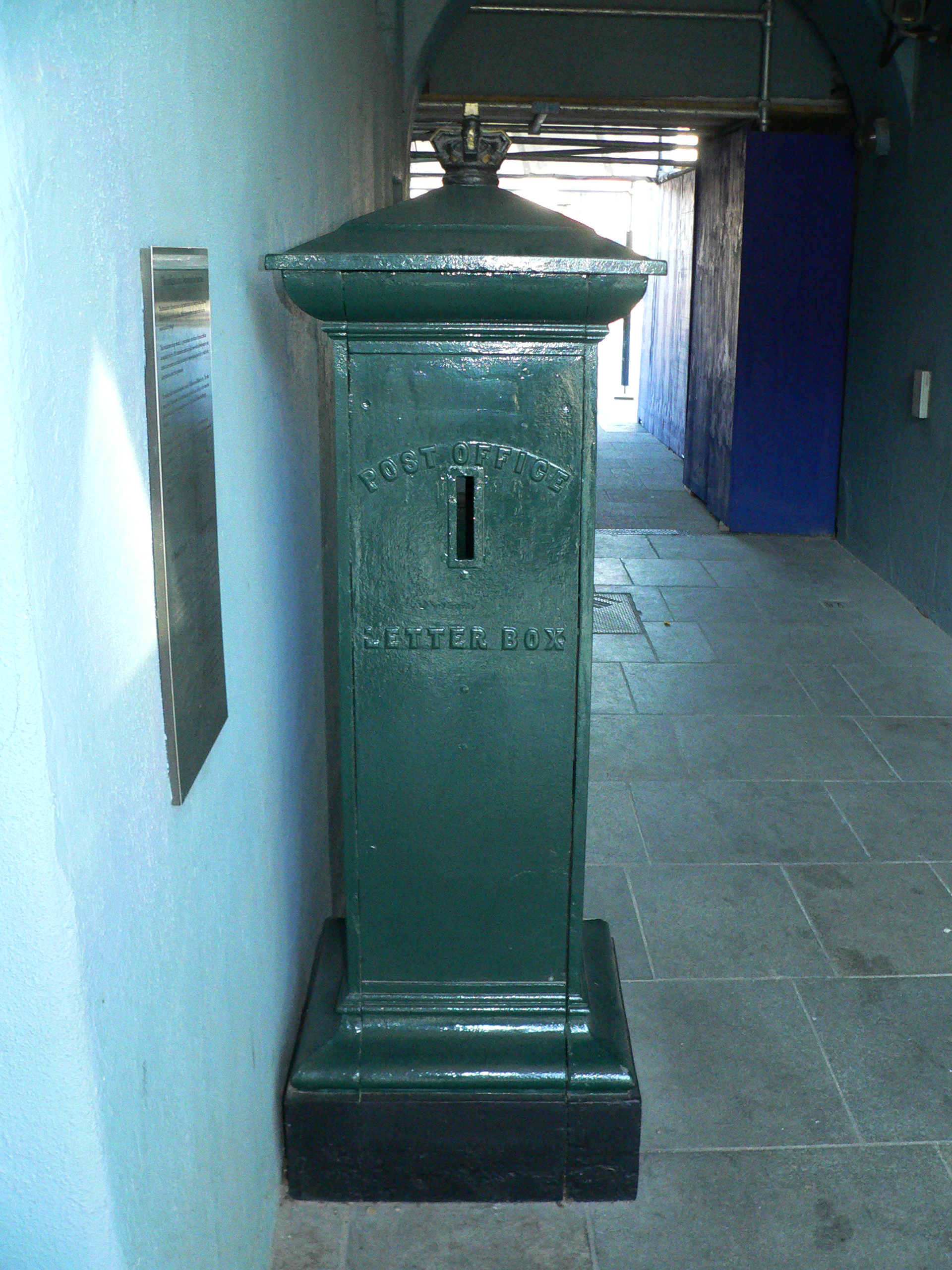 Only known example of an 1850s Ashworth pillar box originally installed in Ireland and now preserved in Dublin Museum, in green livery.